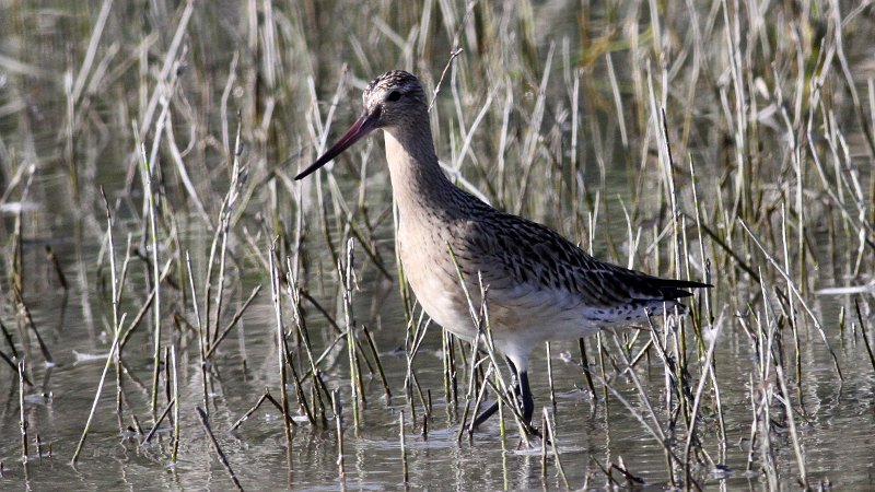 Bar-tailed Godwit (Limosa lapponica)